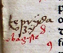 The earliest known Lithuanian glosses (~1520–1530) in Johannes Herolt book Liber Discipuli de eruditione Christifidelium. Described in the article "The Earliest Known Lithuanian Glosses (~1520–1530)". Words - teprÿdav[ſ]ʒÿ (tepridaužia); vbagÿſte (ubagystė)